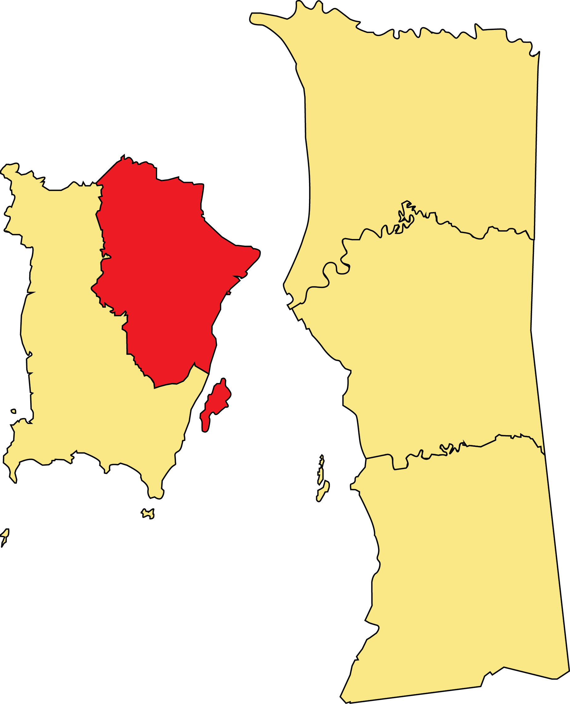 Location of Northeast District within the state of Penang, Malaysia.